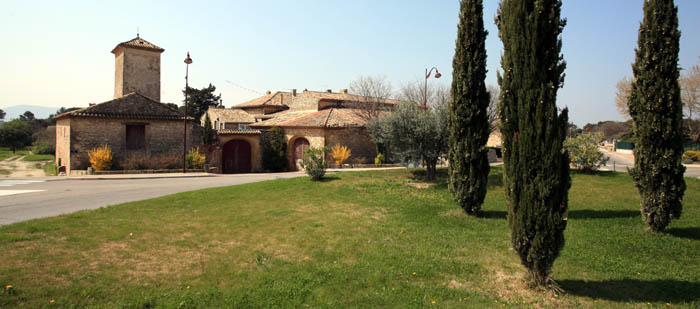 Village of Merindol in Vaucluse, France